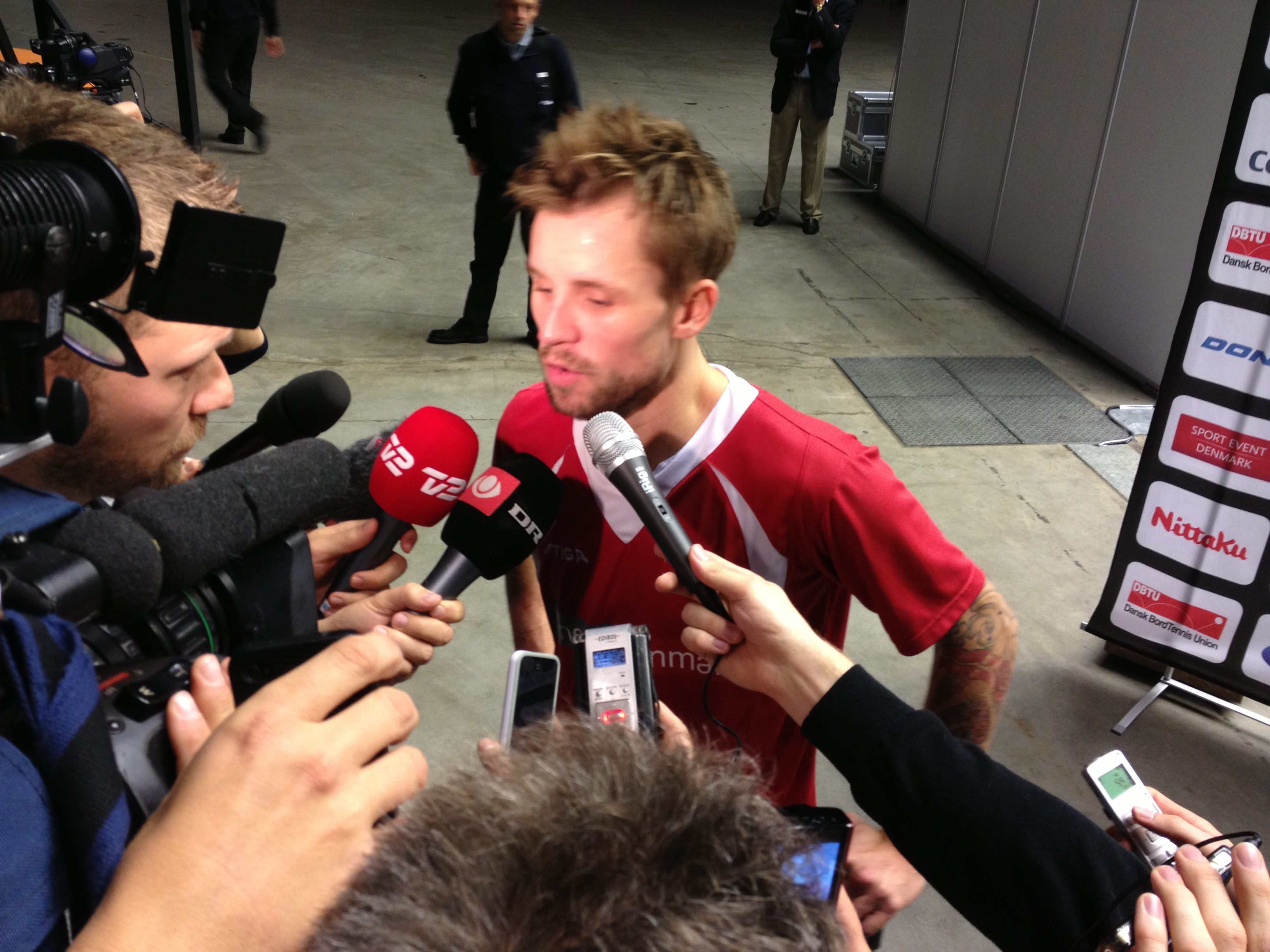 Table Tennis European Championships 2012 Herning